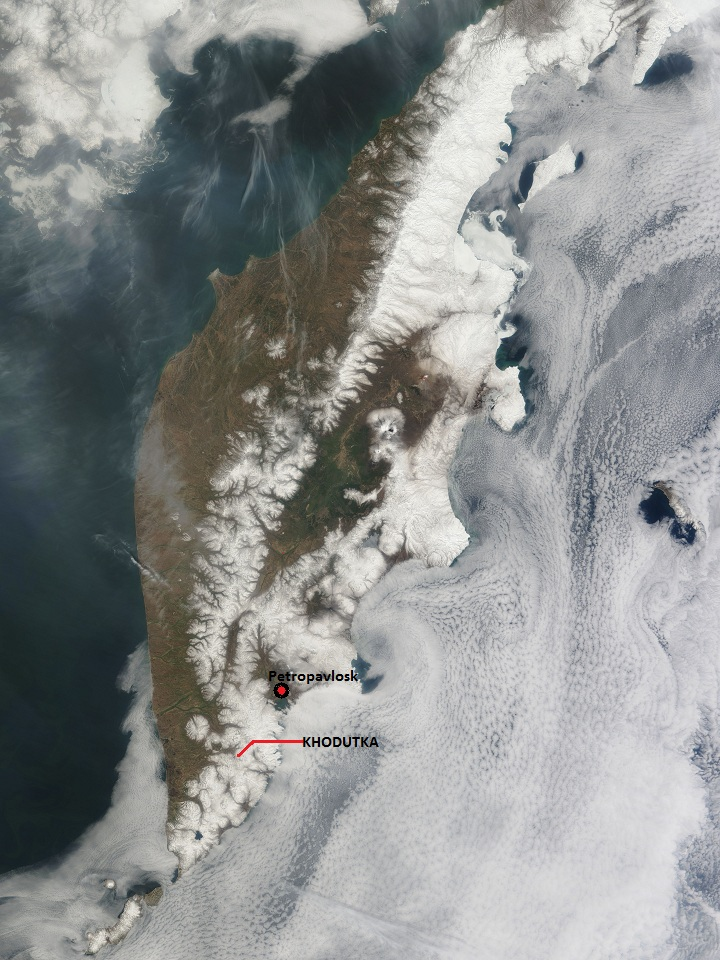 This photo-like image captures clouds hugging the east coast of Russia’s Kamchatka Peninsula while skies inland remained clear. The clear skies revealed a landscape thawing out from winter’s chill. Neatly skirting the peninsula, the clouds over the Bering Sea and the southern part of the Sea of Okhotsk present a textured landscape of their own. Arcs of clouds push up against the coastline, fanning out along the shore. Rather than showing a uniform thickness, the clouds vary from opaque to almost transparent, with a few areas of clear skies revealing deep blue ocean water. On the peninsula, brown-green land surrounds what remains of the snow cover.